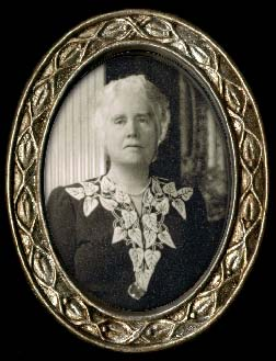 Fanny Peabody Mason, Boston, MA, circa 1935